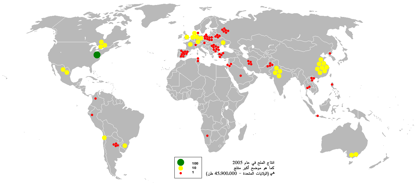 This bubble map shows the global distribution of (unrefined) salt output in 2005 as a percentage of the top producer (USA - 45,900,000 tonnes). This map is consistent with an incomplete set of data too as long as the top producer is known. It resolves the accessibility issues faced by colour-coded maps that may not be properly rendered in old computer screens. Data was extracted on 1st June 2007. Source